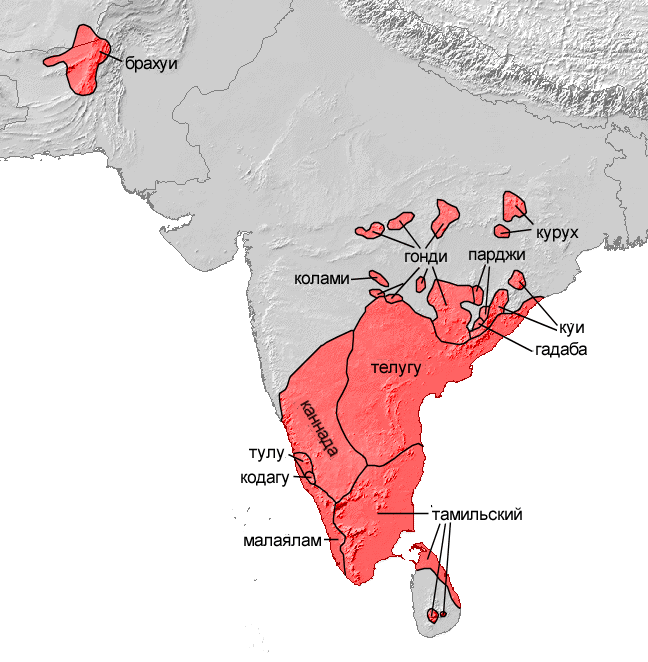 Area of Dravidian languages with Russian labels